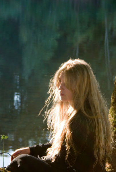 Sandrine near the Dordogne river